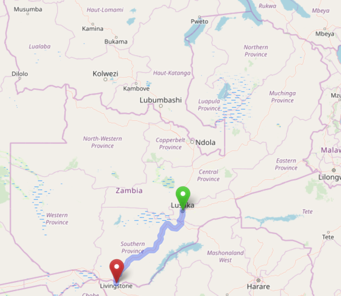 Map of the Lusaka-Livingstone road in Zambia This map of Zambia was created from OpenStreetMap project data, collected by the community. This map may be incomplete, and may contain errors. Don't rely solely on it for navigation.